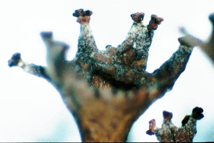 Cladonia multiformis G. Merr. (photograph of a herbarium specimen taken through a dissecting microscope (x40) showing a proliferating cup with dark brown apothecia) Growing with moss on granite boulder along S bank of the St. John's River, 20 miles W of Fredericton, New Brunswick, Canada; collected and identified by A. Norden and B. Norden (No. 642, 8 Jun 1974); specimen is now in the Lichen Herbarium of the New York Botanical Garden.